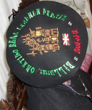 Bill Felstiner under the ceremonial Basque hat (txapela), usually reserved for champions in sports